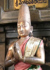 Statue of Venakta II, emperor of the Vijayanagara, Sri Venkateshwara Temple.